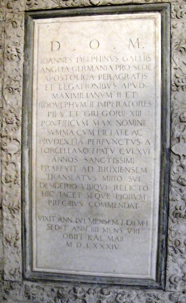 Giovanni Dolfin. Grave in Duomo Vecchio, Brescia.